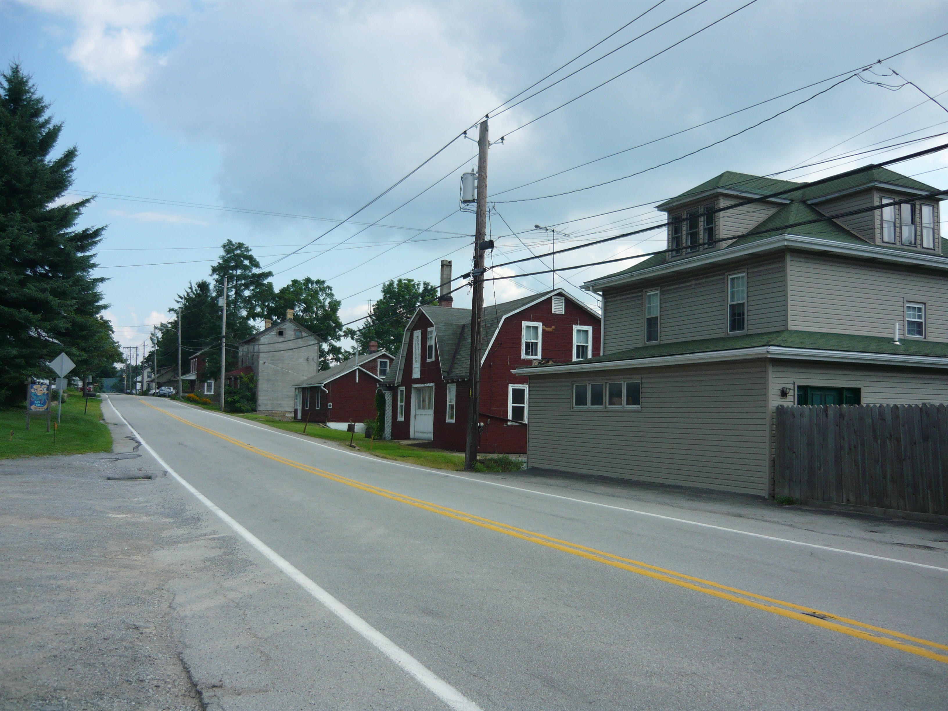 Main Street, Donegal, Pennsylvania, looking southeastward from intersection of Main Street and Fayette Street